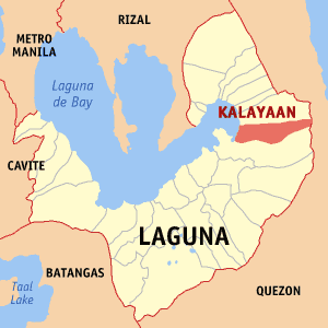 Locator map of Kalayaan in Laguna, Philippines.